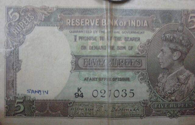 5 Rupees currency note of British India before 1947